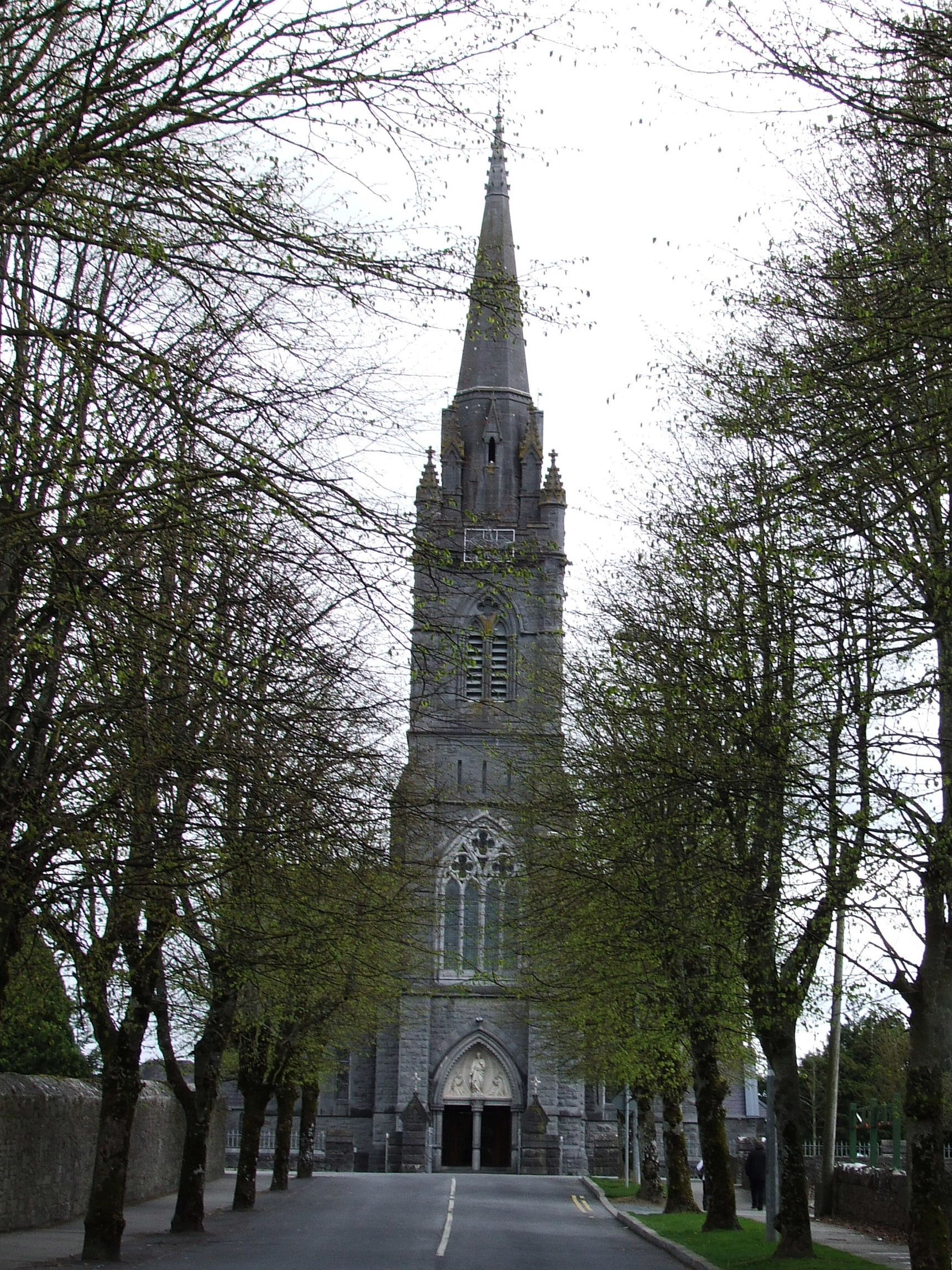 Viewed from Church Avenue, the facade of the Church of the Sacred Heart, Templemore, Co. Tipperary, April 2010.